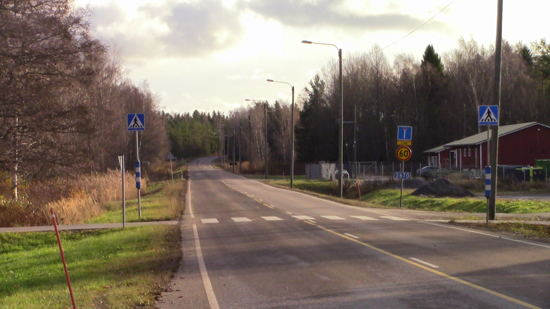 Finnish connecting road 2670 as seen from the crossing of Kauppatie and Varvintie roads in Merikarvia. The road runs from the crossing of regional road 270 and connecting roads 2680 and 6600 to Merikarvia harbour.